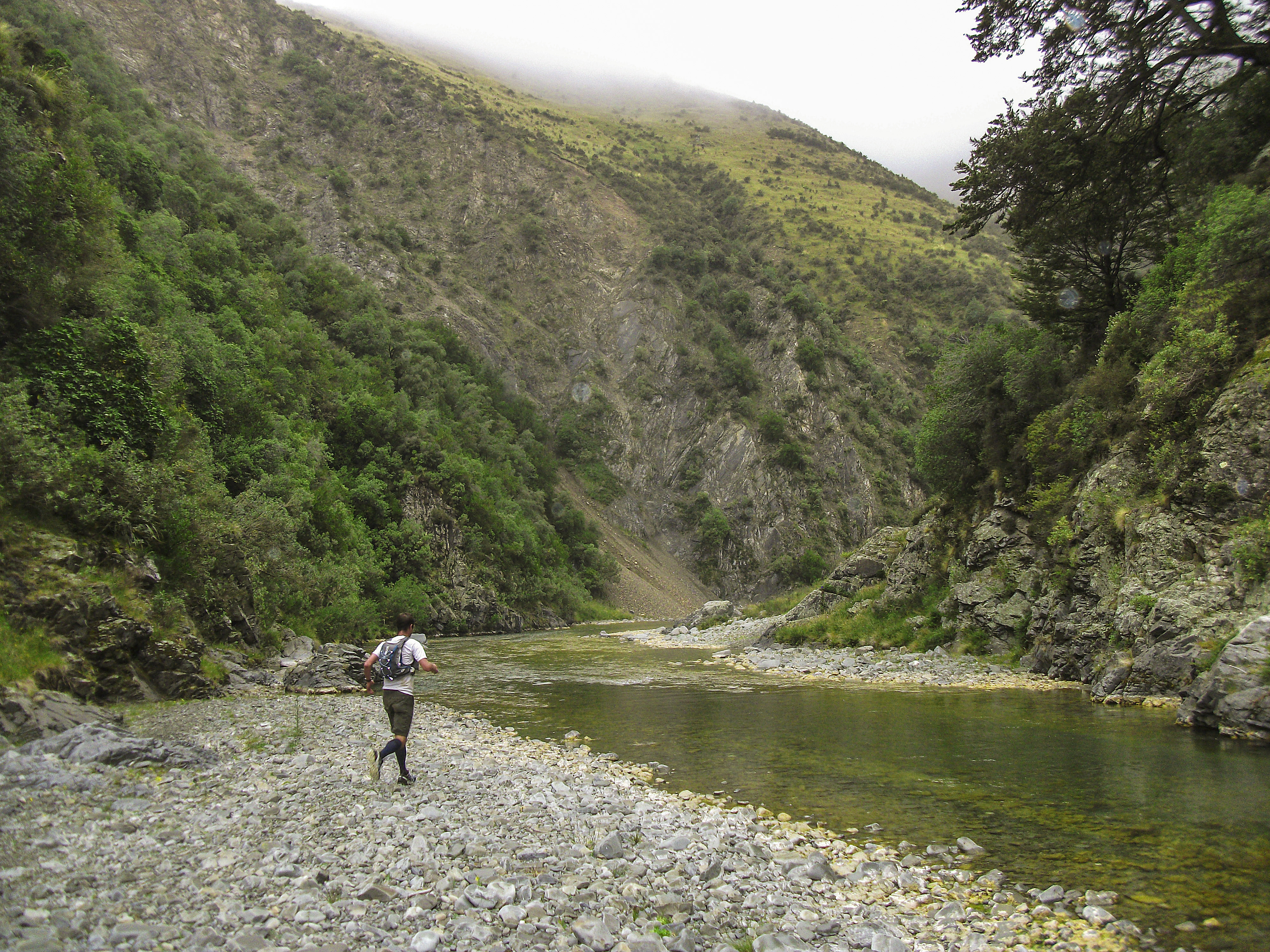 Orari River in Orari Gorge in Canterbury New Zealand. Runner is André Chalmers